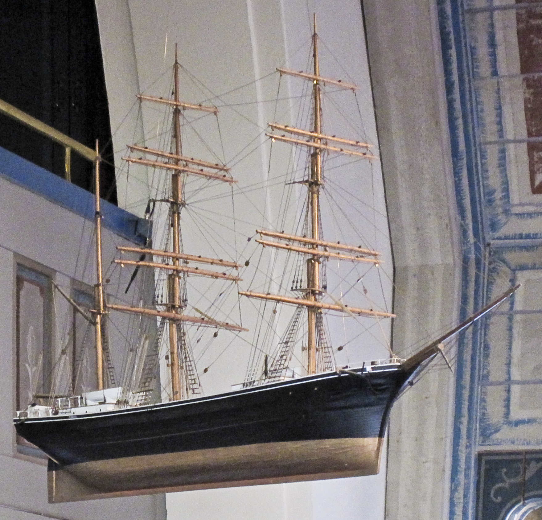 The votive ship at the Saint George Church in Mariehamn, Åland, Finland